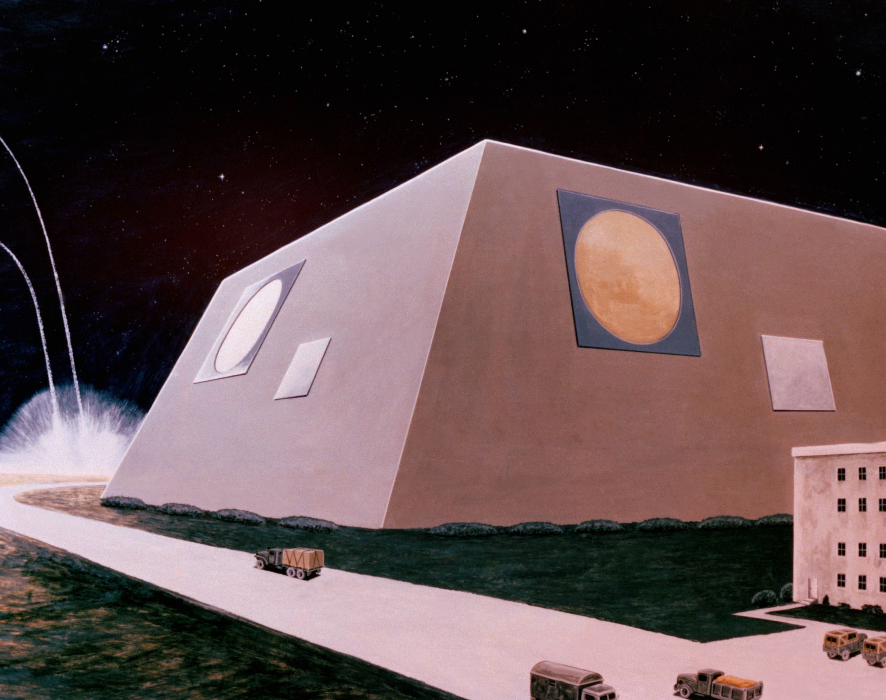 Artist's concept of the Pushkino Anti-ballistic Missile Radar. "Soviet Military Power," 1983, Pages 4-5